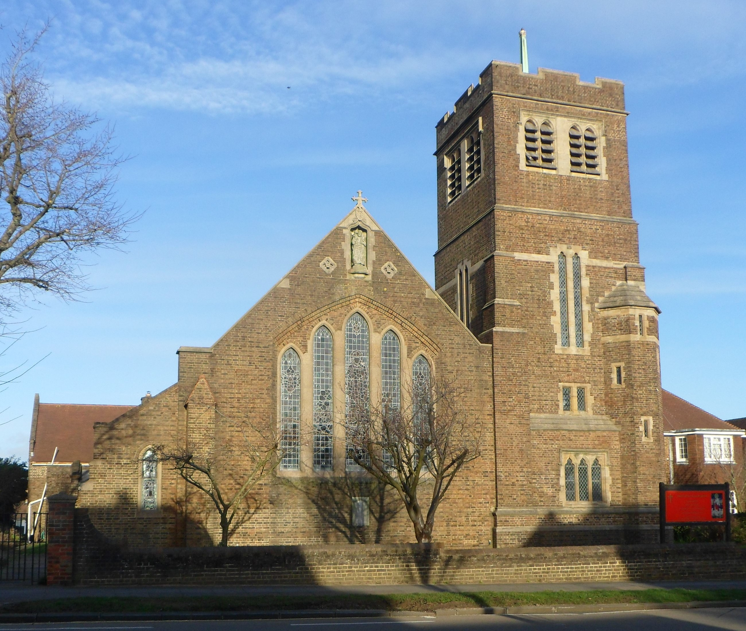 Parish Church of the Good Shepherd, Dyke Road, PRestonville, Brighton, East Sussex, seen from the southwest